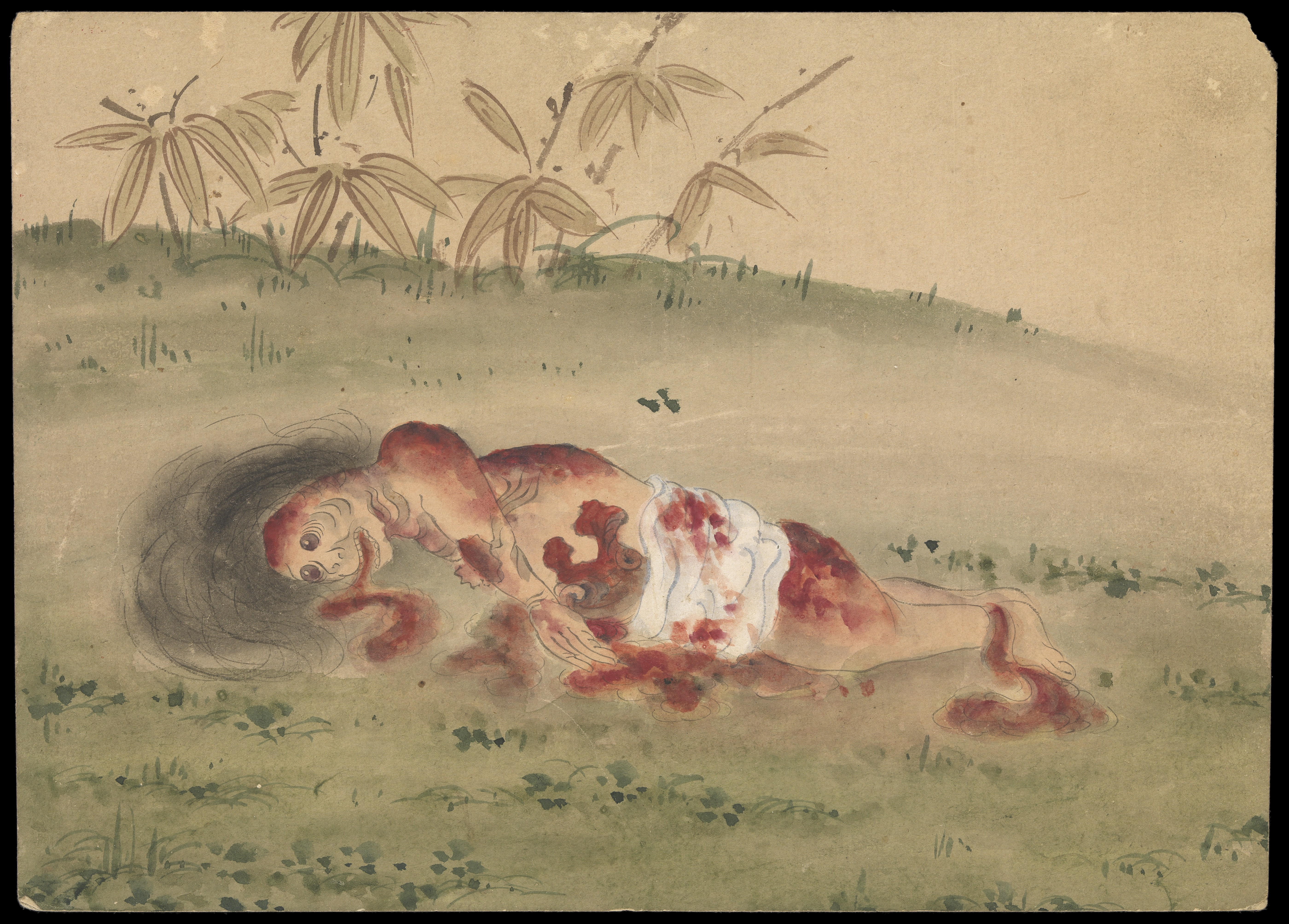 Kusozu: the death of a noble lady and the decay of her body. Fifth in a series of 9 paintings. Here her body is decaying in the advanced stages of putrefaction. Iconographic Collections